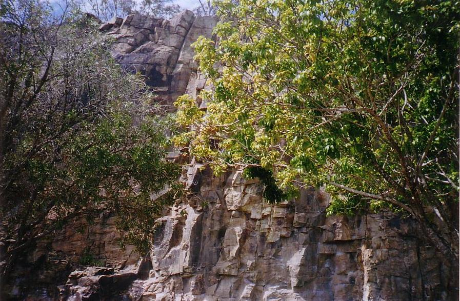 Part of the Kangaroo Point Cliffs during the daytime